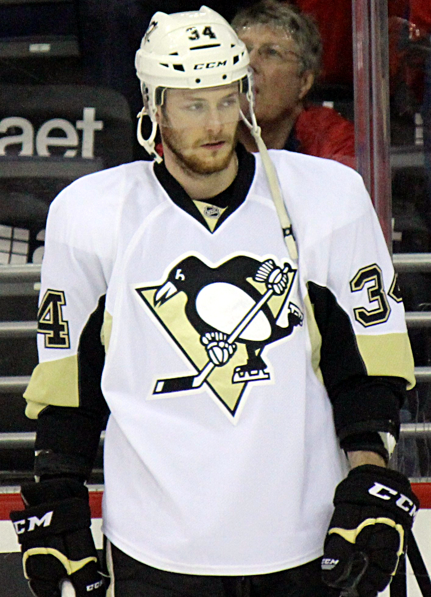 Pittsburgh Penguins forward Tom Kuhnhackl warms up prior to a game against the Washington Capitals, March 1, 2016, at Verizon Center in Washington, D.C.